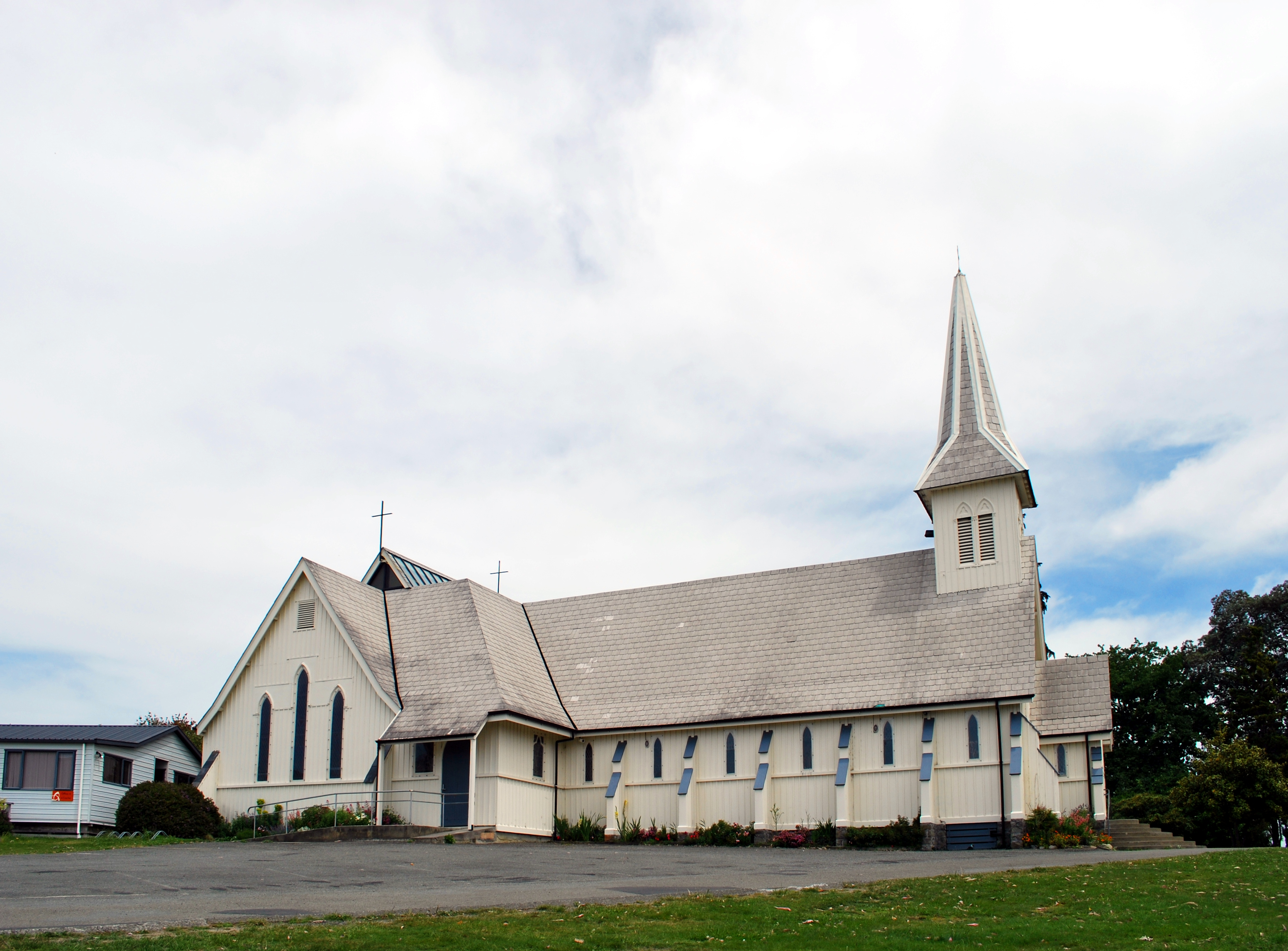 Holy Trinity Anglican church at Richmond, New Zealand